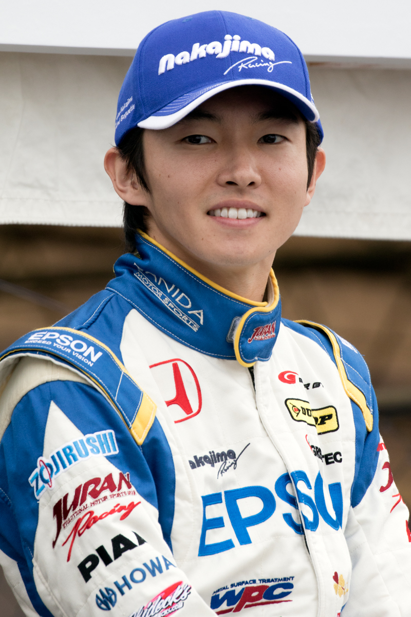 Motorsport Japan 2015: Daisuke Nakajima (Nakajima Racing)